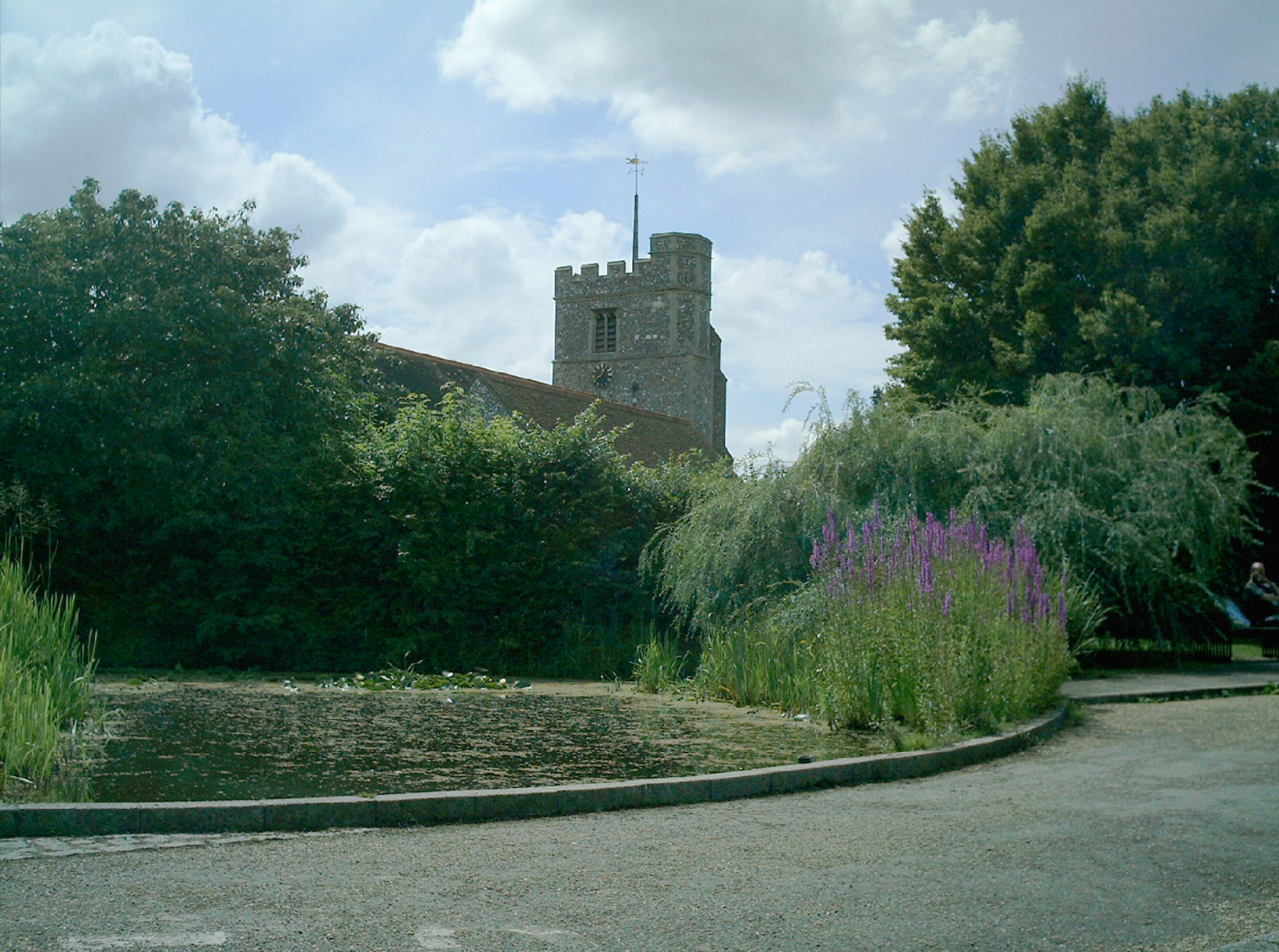 Saint James Church, Bushey, Hertfordshire, England